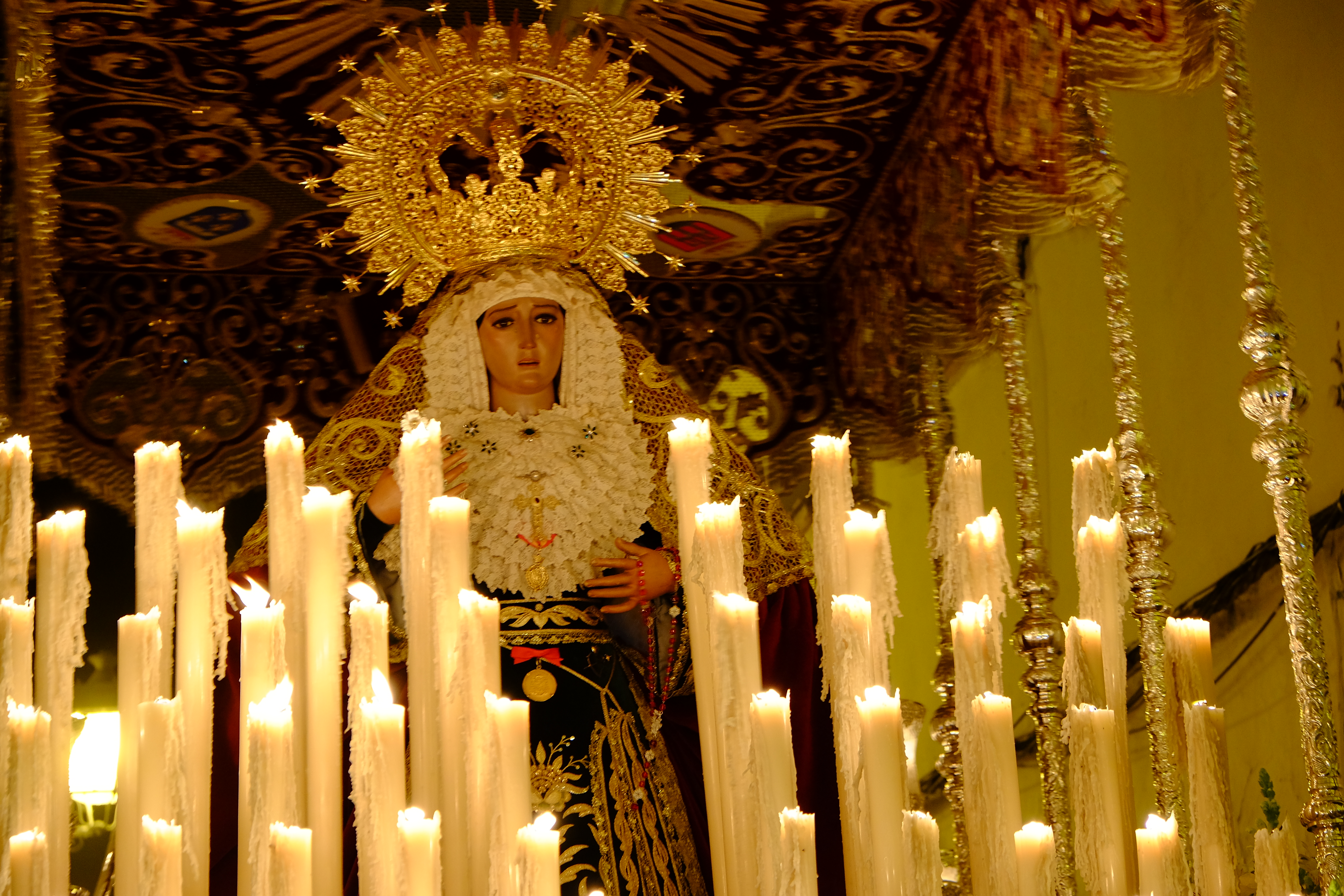 Holy Mary of Sorrows carried by the members of the Hermandad de Nuestro Padre Jesús de las Tres Caídas y María Santísima de la Amargura, during a Holy Week night procession through the streets of Arcos de la Frontera (Andalusia, Spain).